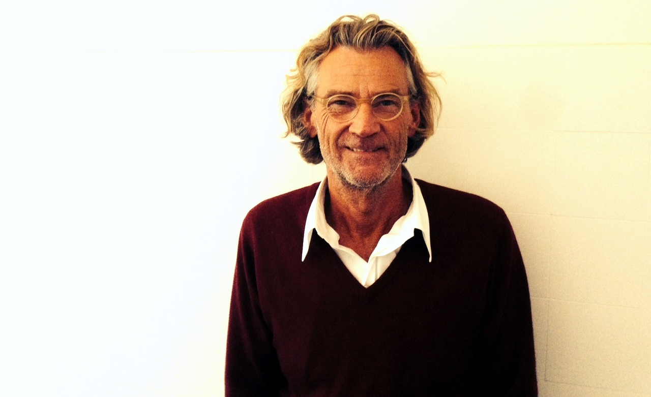 German journalist and docent Andreas Wrede. He was born 1956 in Essen/Germany.